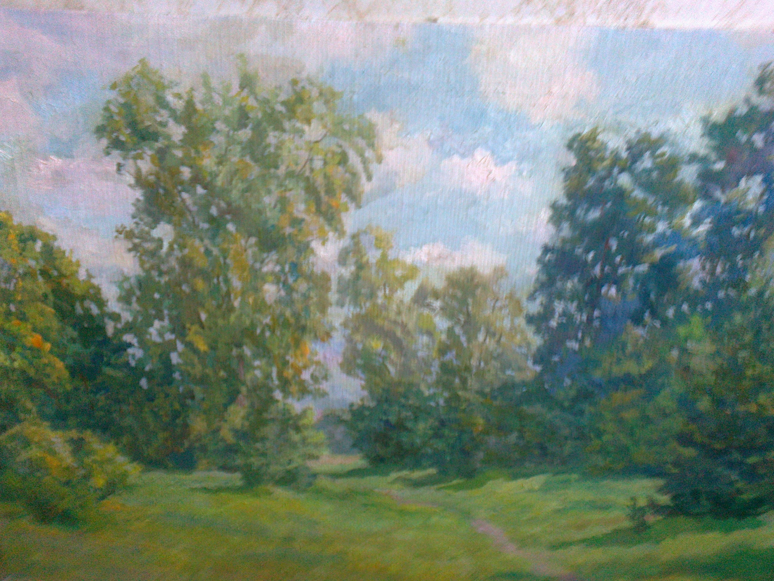 Famous Russian painter 1908-1981